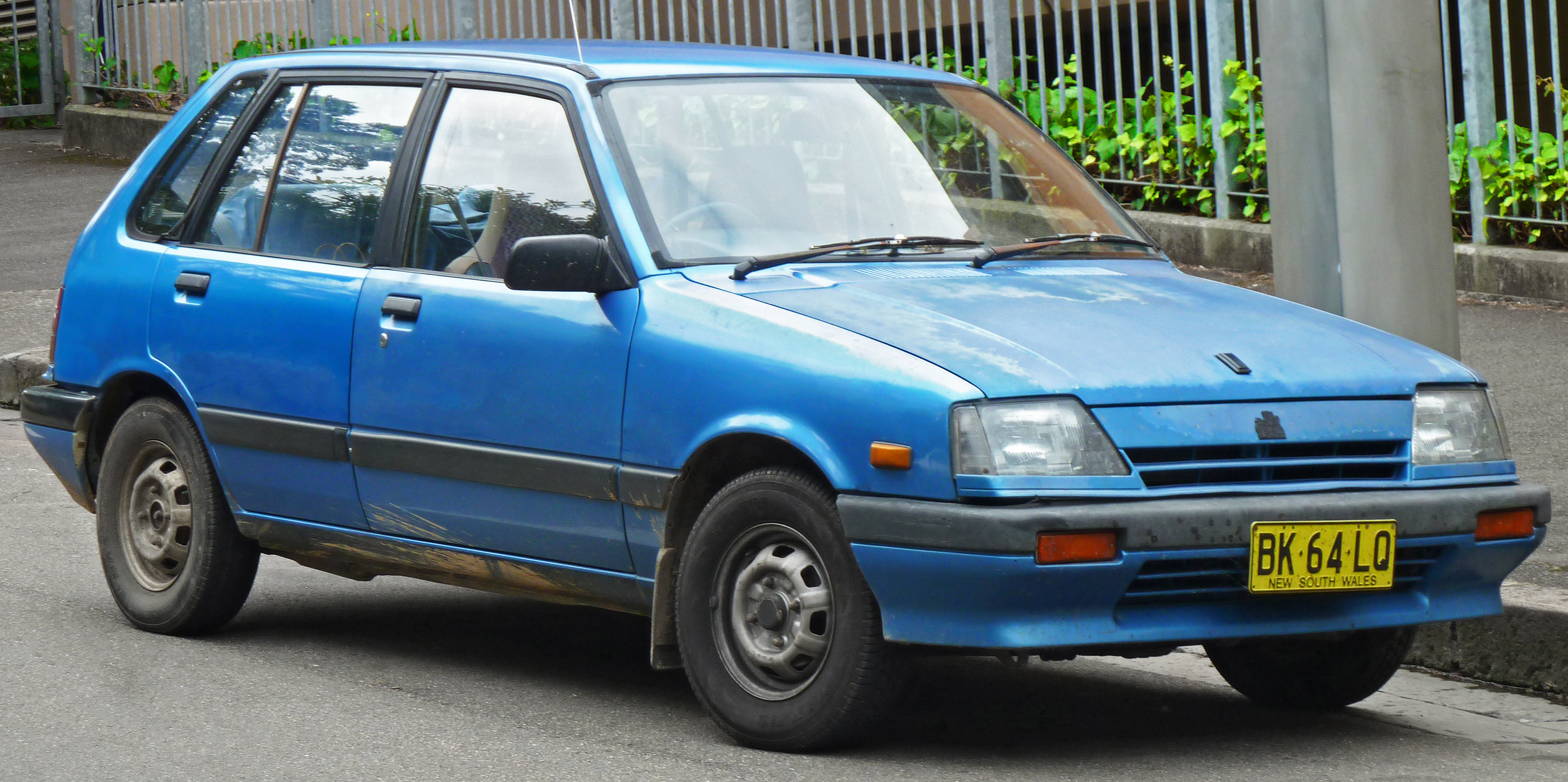 1986 Holden Barina (ML) hatchback. Photographed in Sydney, New South Wales, Australia.